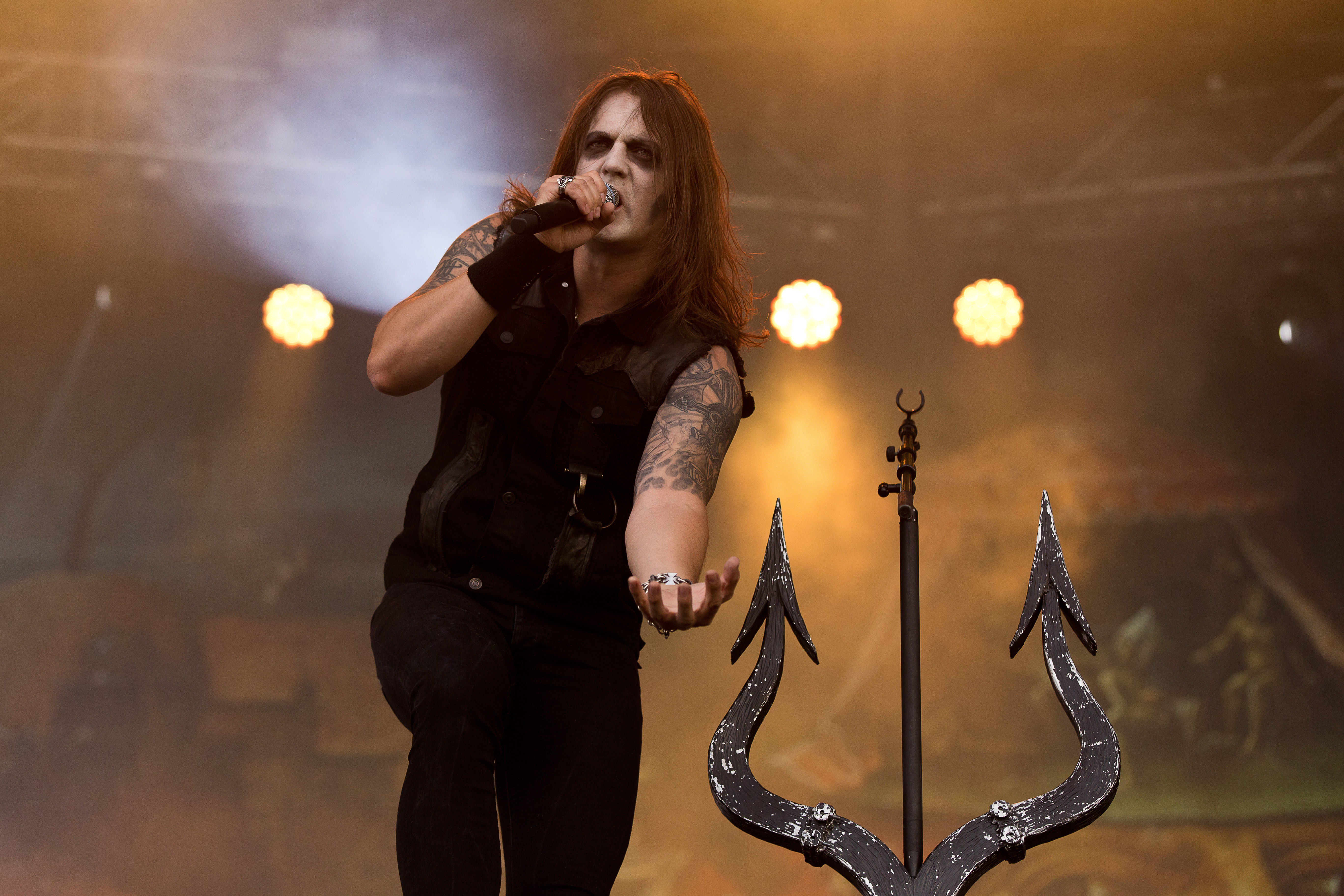 The Norwegian black metal band Satyricon at the Rockharz Open Air 2016 in Ballenstedt/Germany.